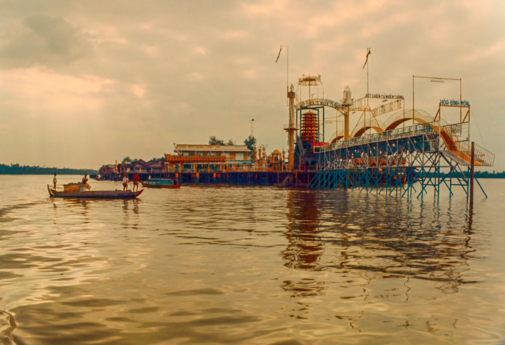 Photo taken by my brother John, now deceased, digitally scanned by me in 2013.